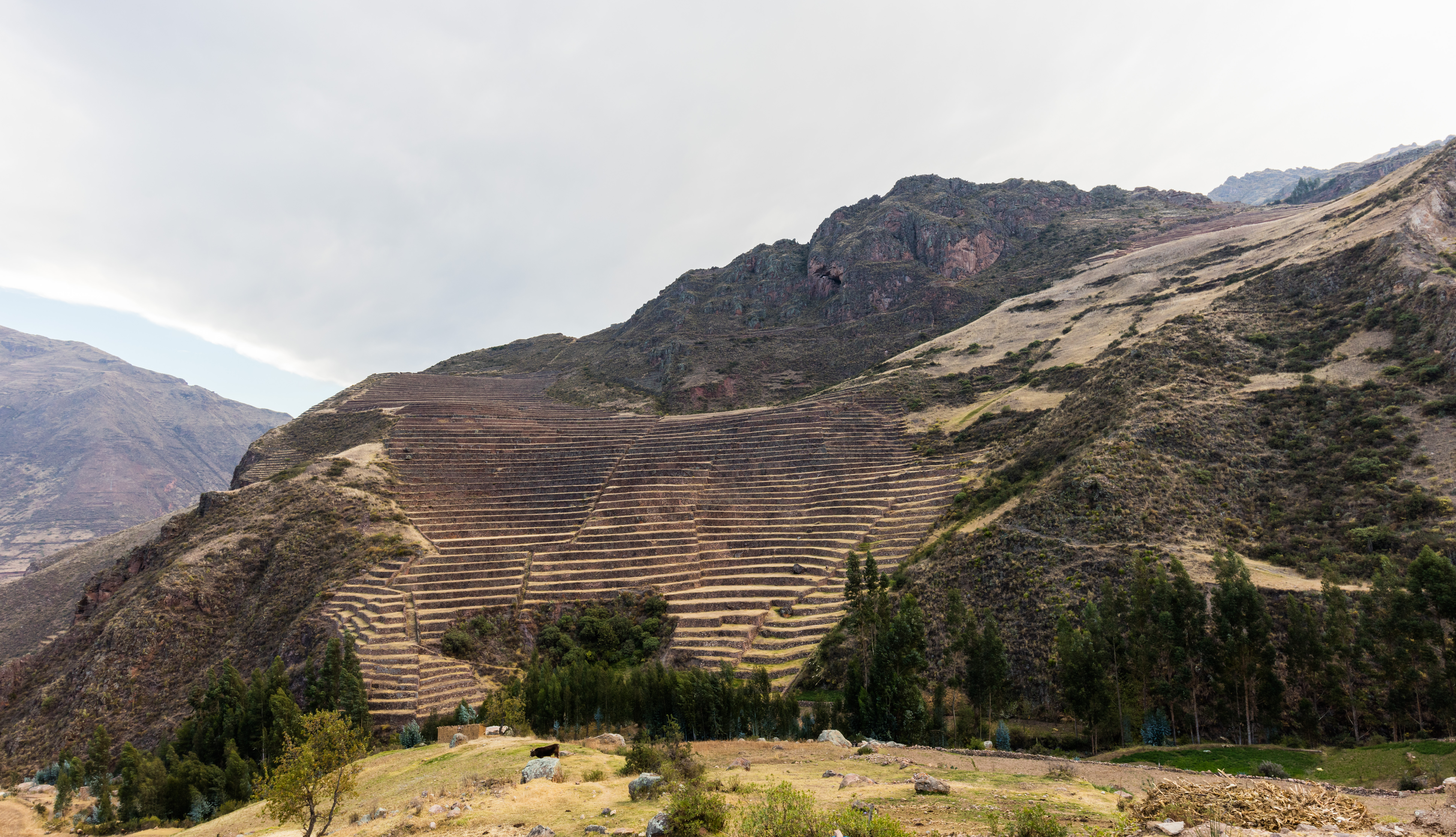 Pisac, Cuzco, Peru